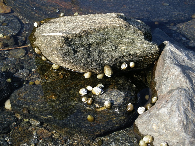 Clithon retropictus (Martens,1879). at Nagasaki.